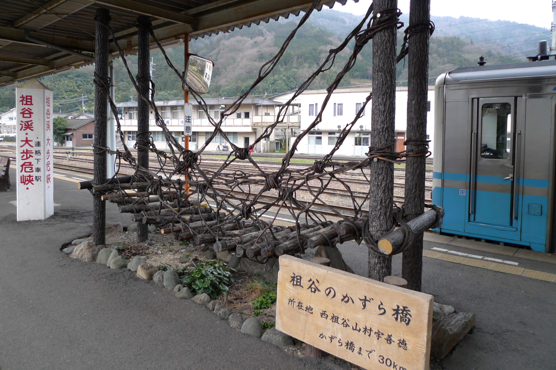 Model of Kazurabashi (vine bridge) placed on the platform at Awa-Ikeda Station in Miyoshi City, Tokushima Prefecture, Japan. Sign reads: "Kazurabashi over the Iya Valley, located in Nishiiyayama Village. 30 km from here"